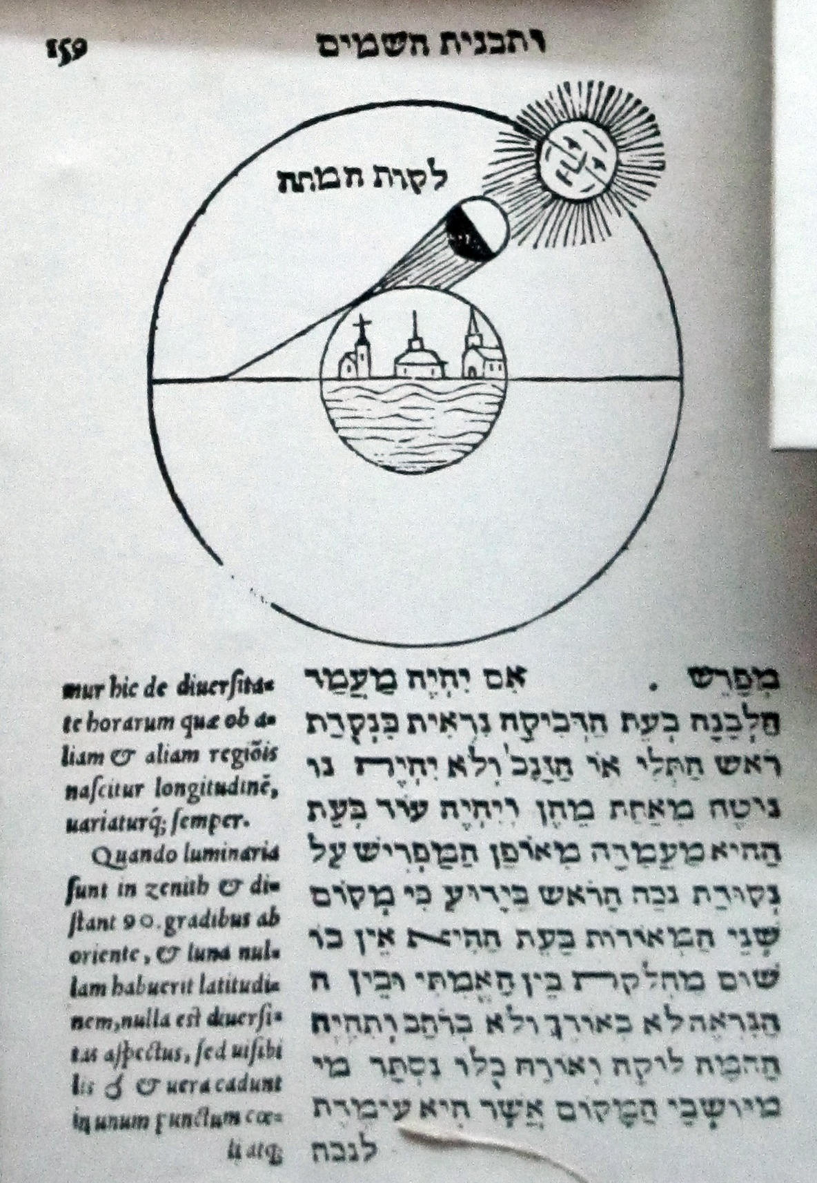 Sefer Tzurat ha-Aretz by Abraham bar Hiyya, Basle, 1546 The page shows the eclipse of the sun